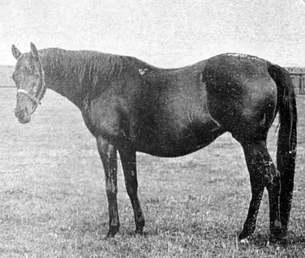 Mrs. Butterwick, winner of the 1893 Epsom Oaks, at Welbeck Abbey Stud in 1905.